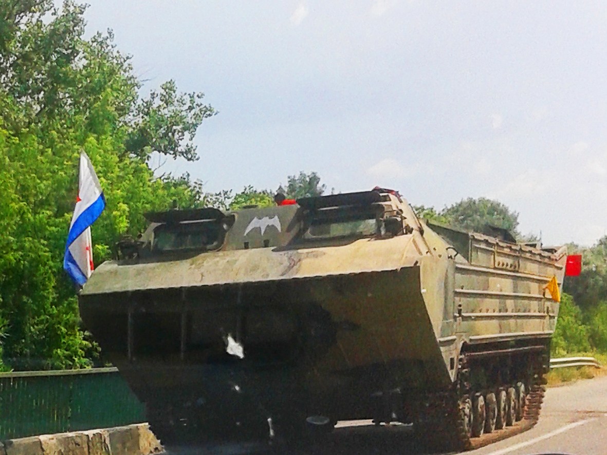 An amphibian of the separatists on the bridge over the Siversky Donets near the city Schastia (Ukraine), captured by the battalion "Aidar"